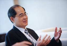 Minister Lim Hng Kiang taken by me